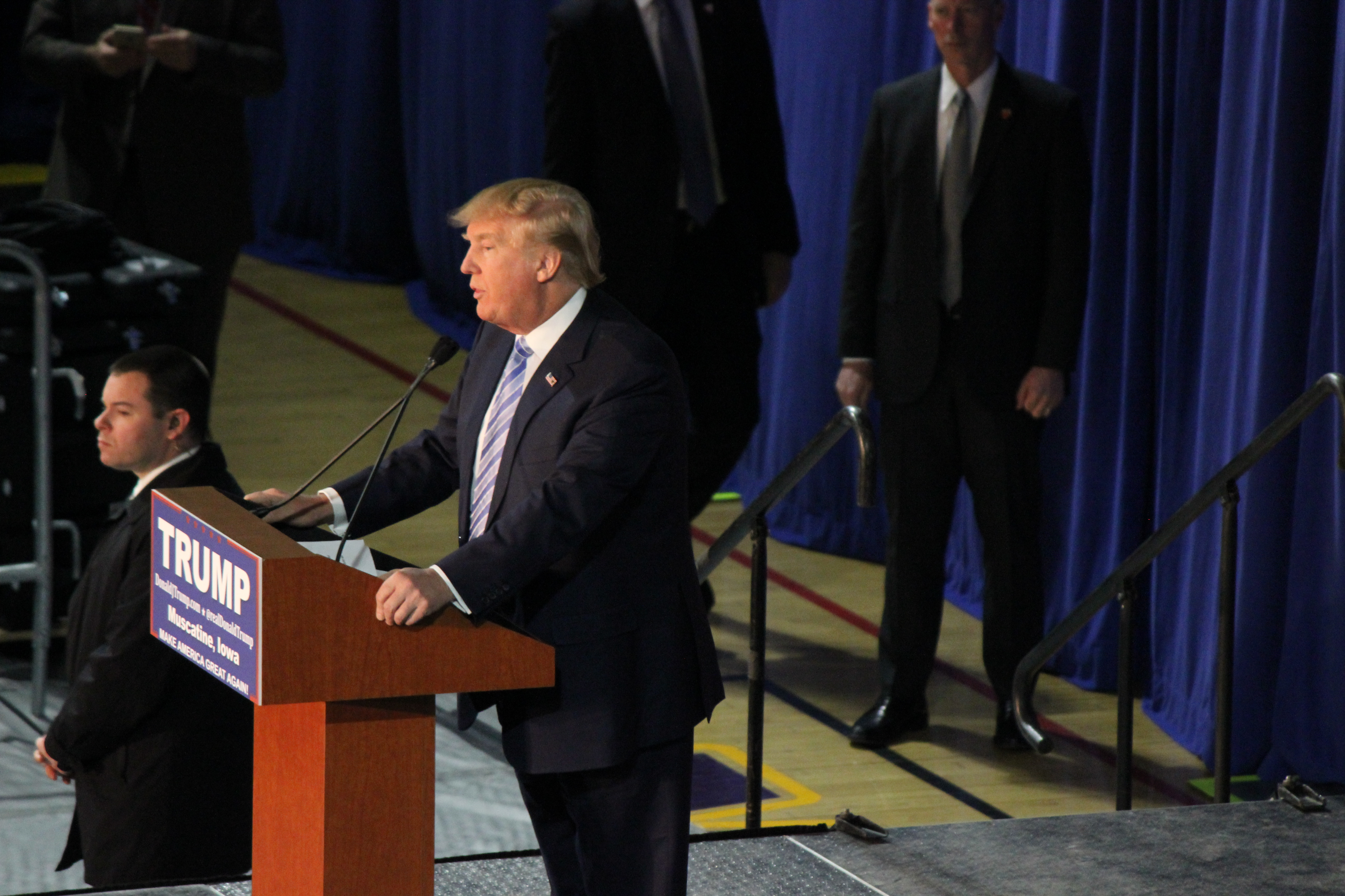 Donald Trump makes a campaign stop at Muscatine Iowa on 1/24/2016